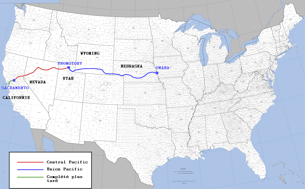 Map of the route of the First Transcontinental Railroad. Crossing the Western United States to/from California. Built in the 1860s, and opening in 1869.